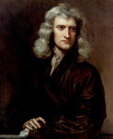 Portrait of Isaac Newton (1642-1727)